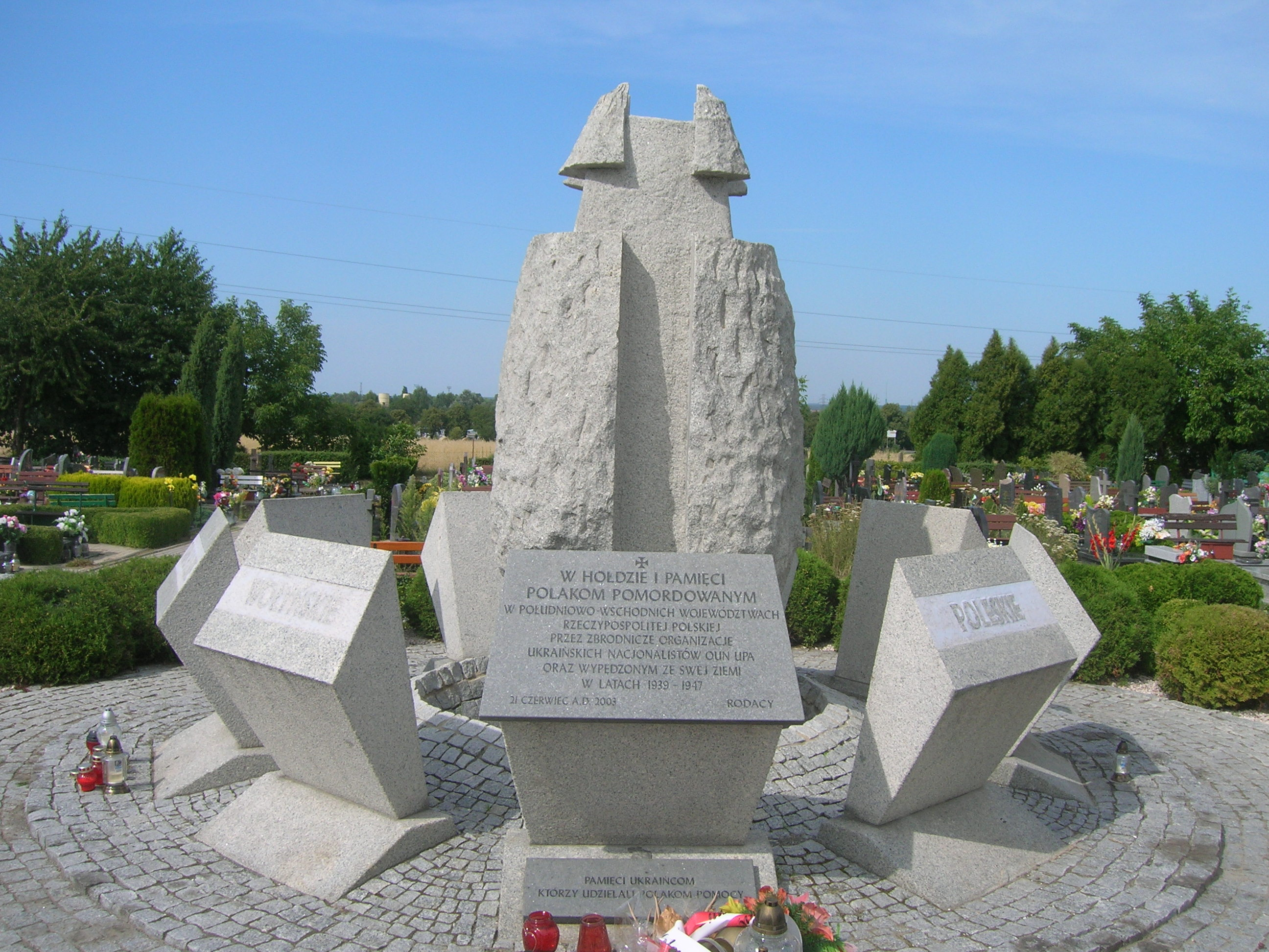 Monument to victims of OUN-UPA in Głogów